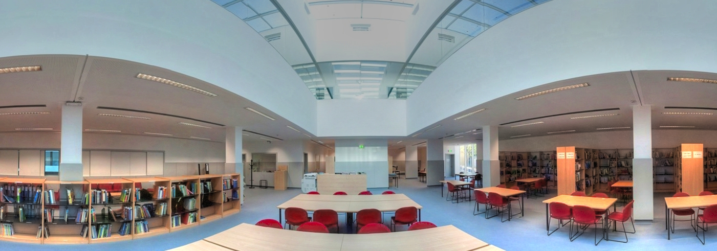 Secondary School of Rio Tinto - Portugal